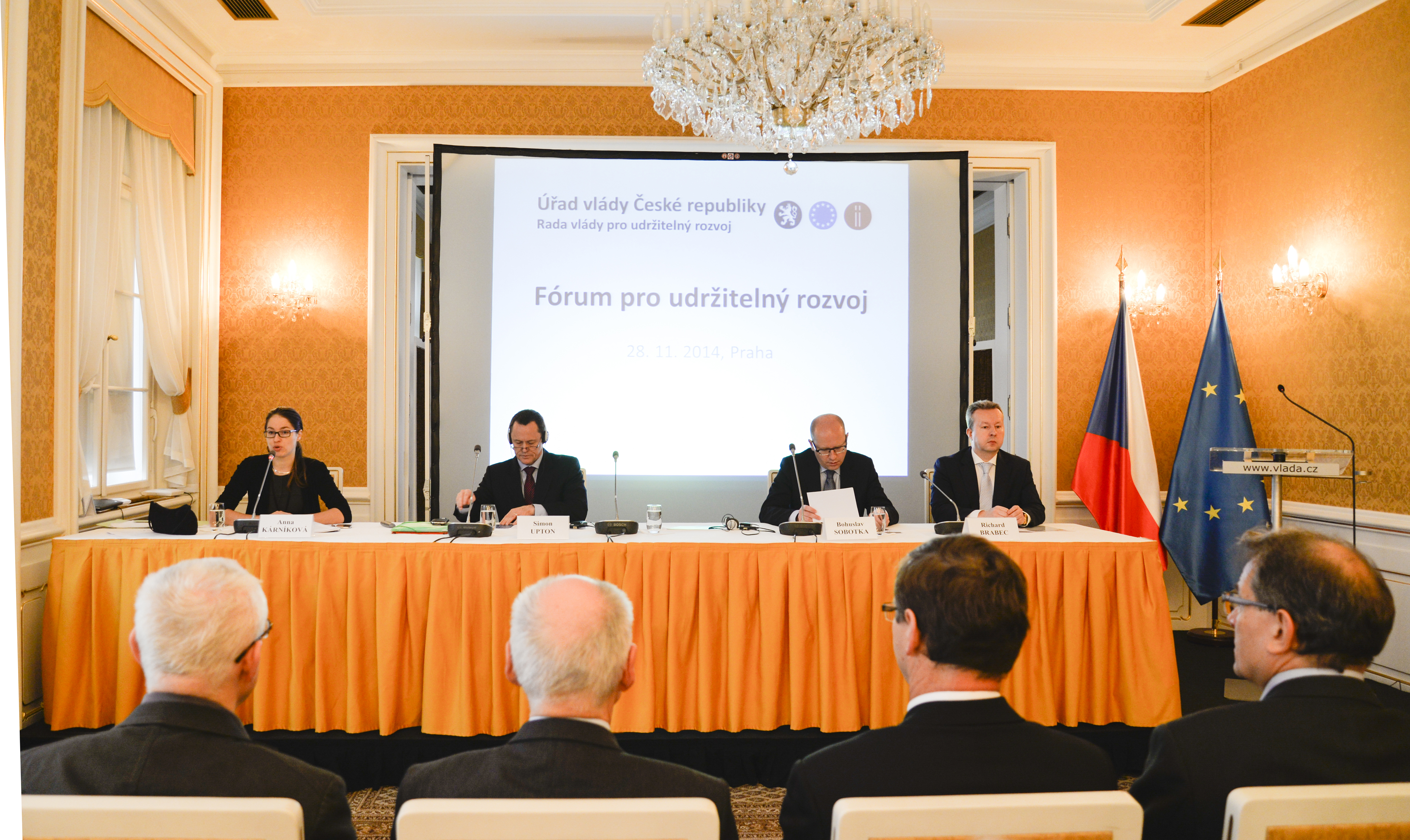 Opening of the Sustainable development forum on November 28, 2014 in Prague - Anna Kárníková, Simon Upton, Bohuslav Sobotka a Richard Brabec